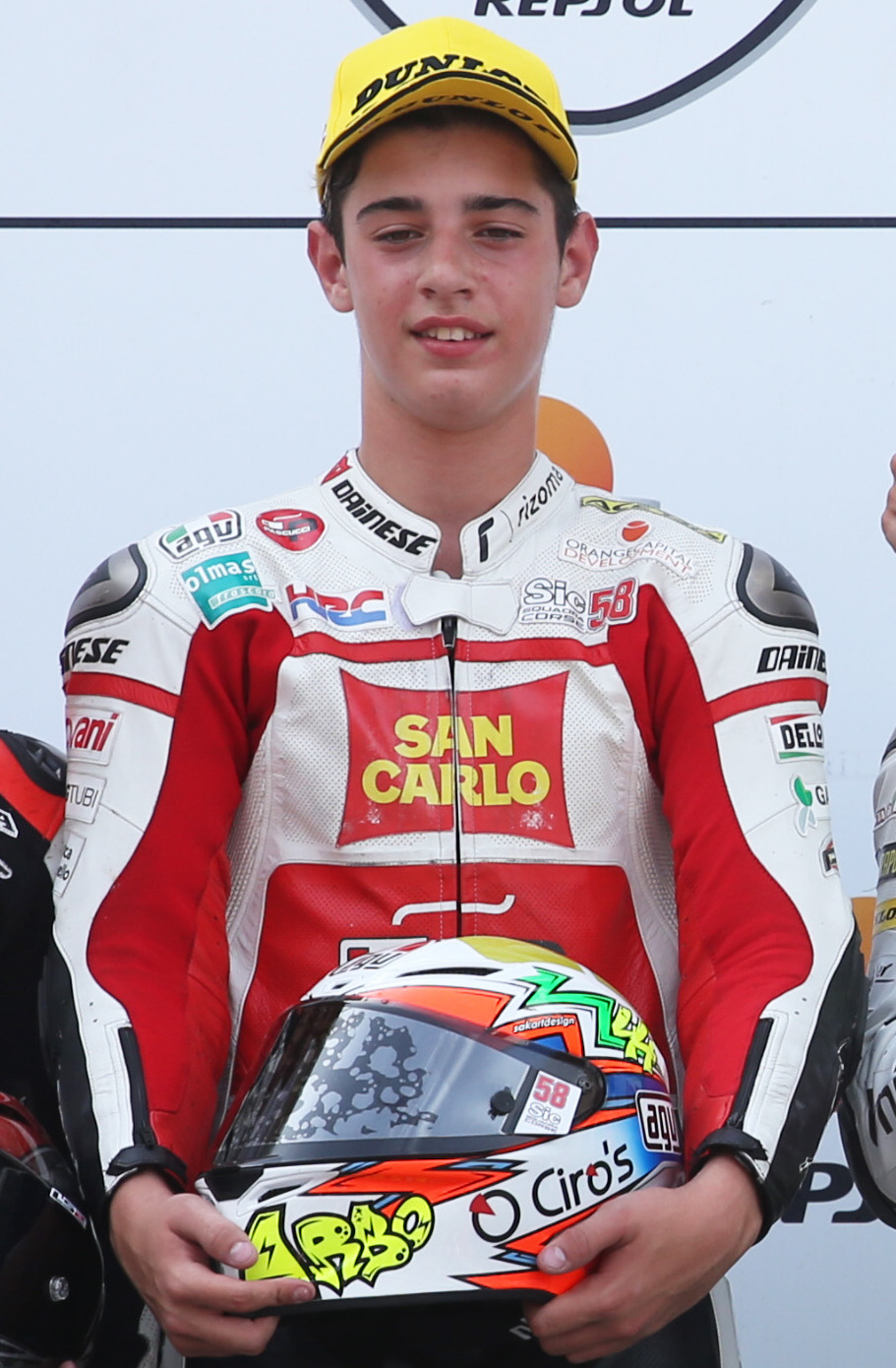 Tony Arbolino on the podium of the 2016 CEV Moto3 Catalunya race 2.